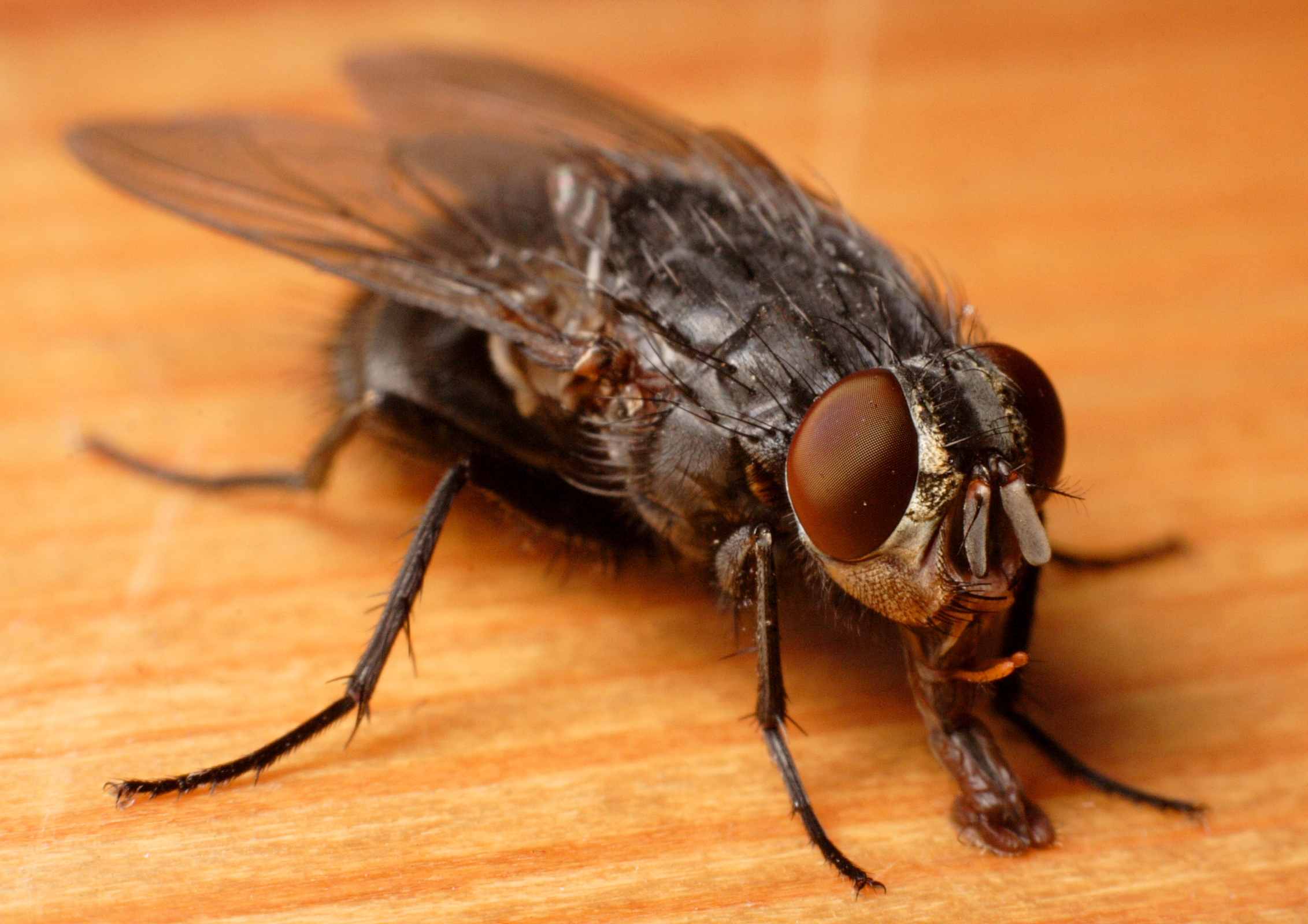 Calliphora species, a blow-fly species in Aachen, Germany. Thanks to Doc Taxon for the identification of the species.